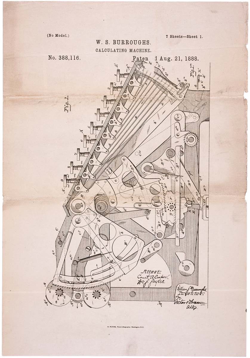 Drawing for a Calculating Machine, 08/21/1888. This is the printed patent drawing for a calculating machine invented by William S. Burroughs. From the National Archives.